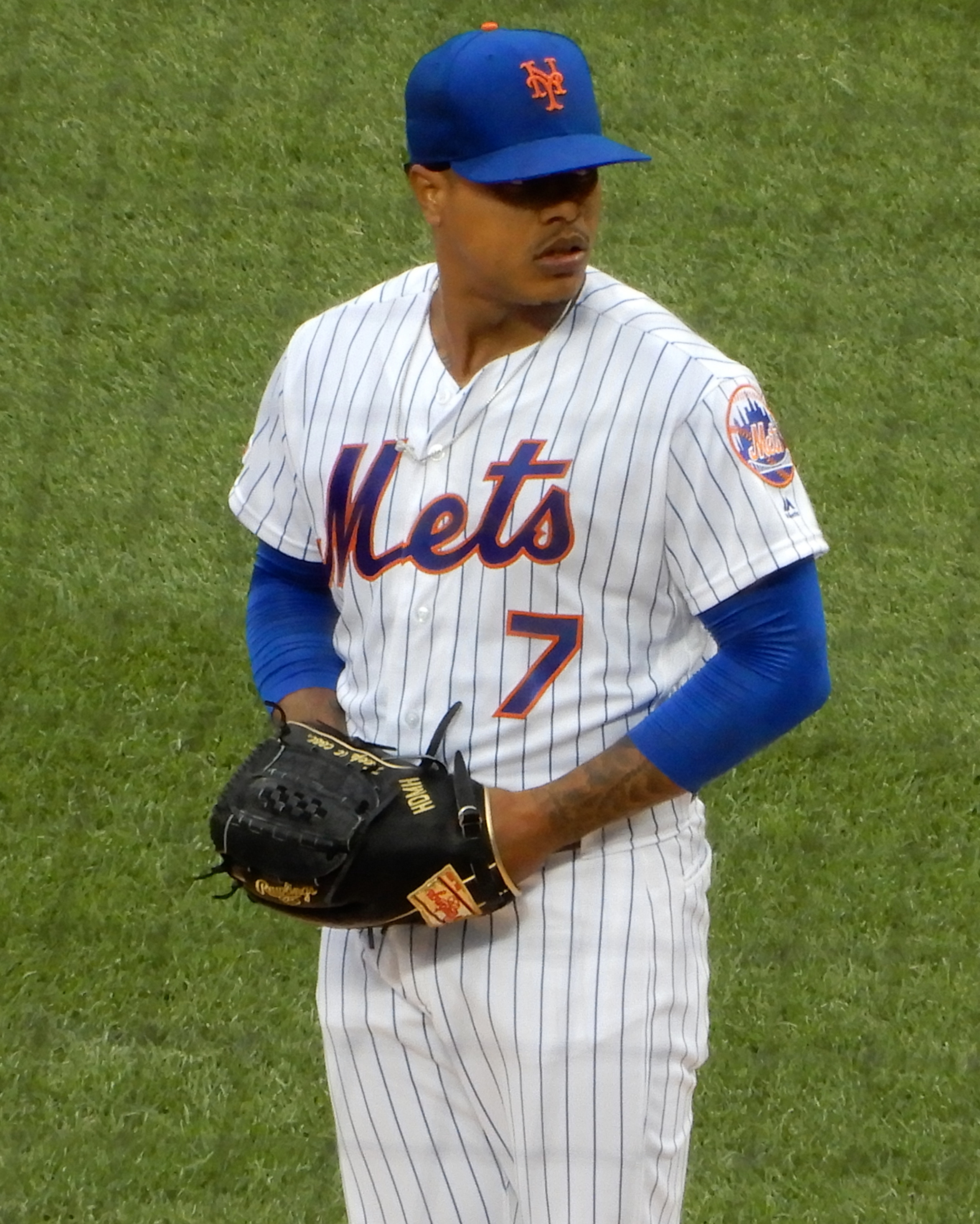 Marcus Stroman on the mound for the New York Mets during a 2019 game at Citi Field.